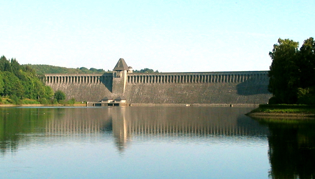 The dam of the Möhne Reservoir, Germany. (Cropped image)